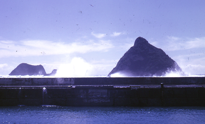 New Plymouth breakwater and Ngā Motu / Sugar Loaf Islands, Taranaki, New Zealand.